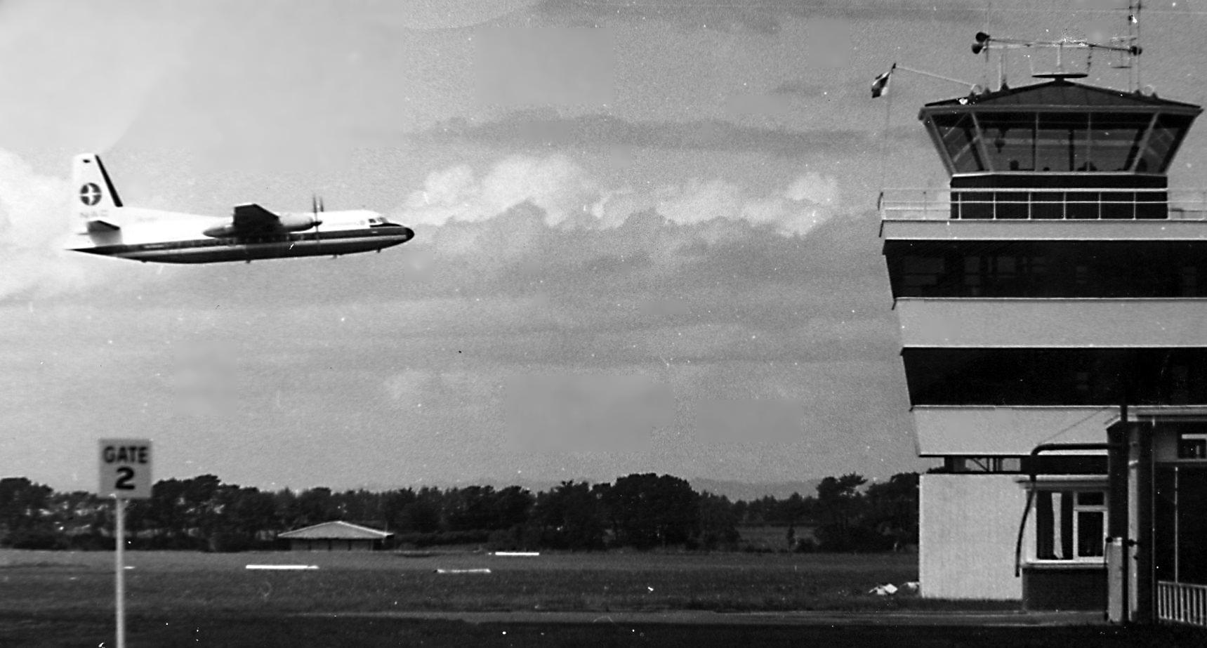 F27, New Plymouth, 1970